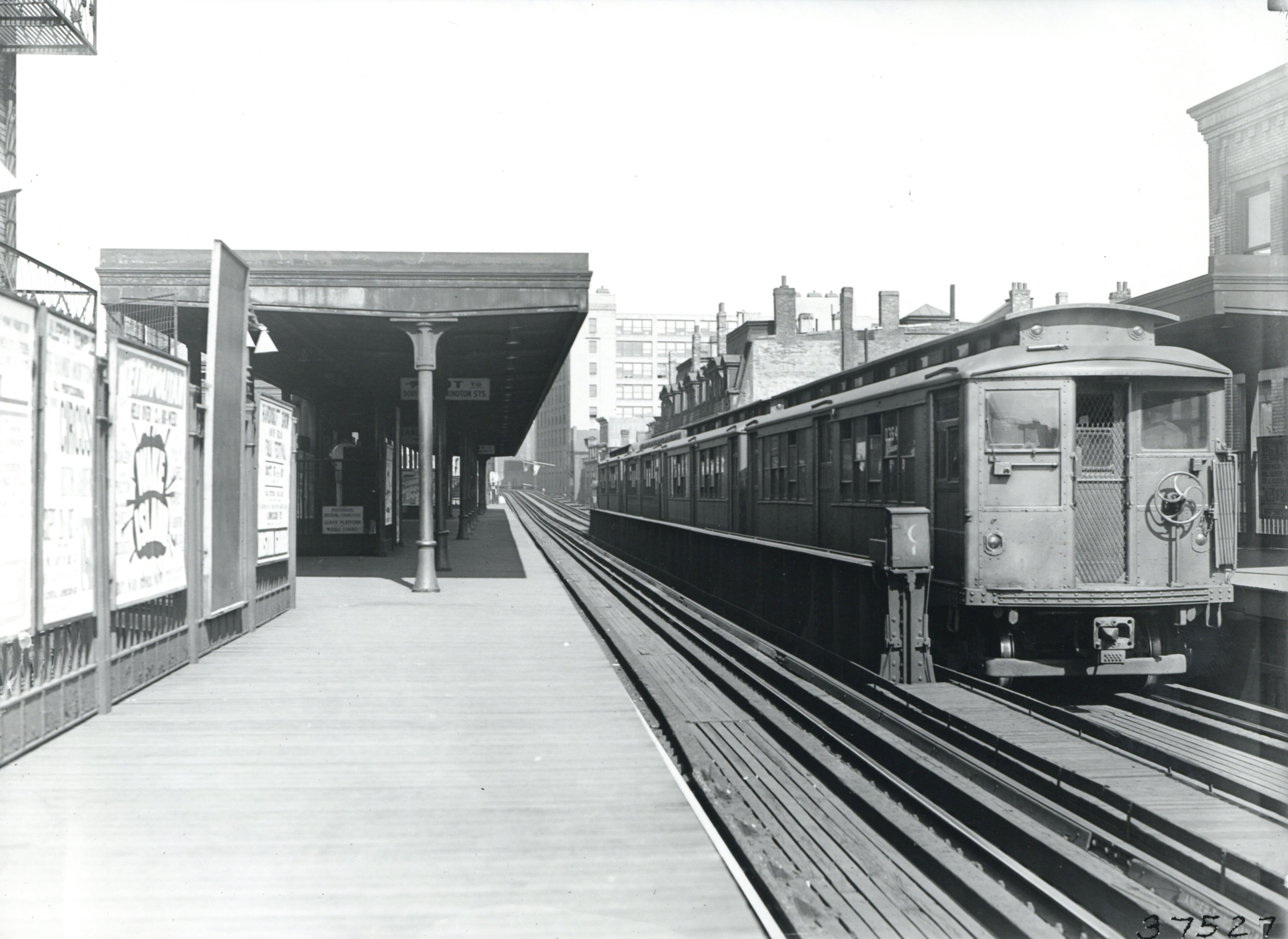 A train at Dover station on the Main Line Elevated in 1942